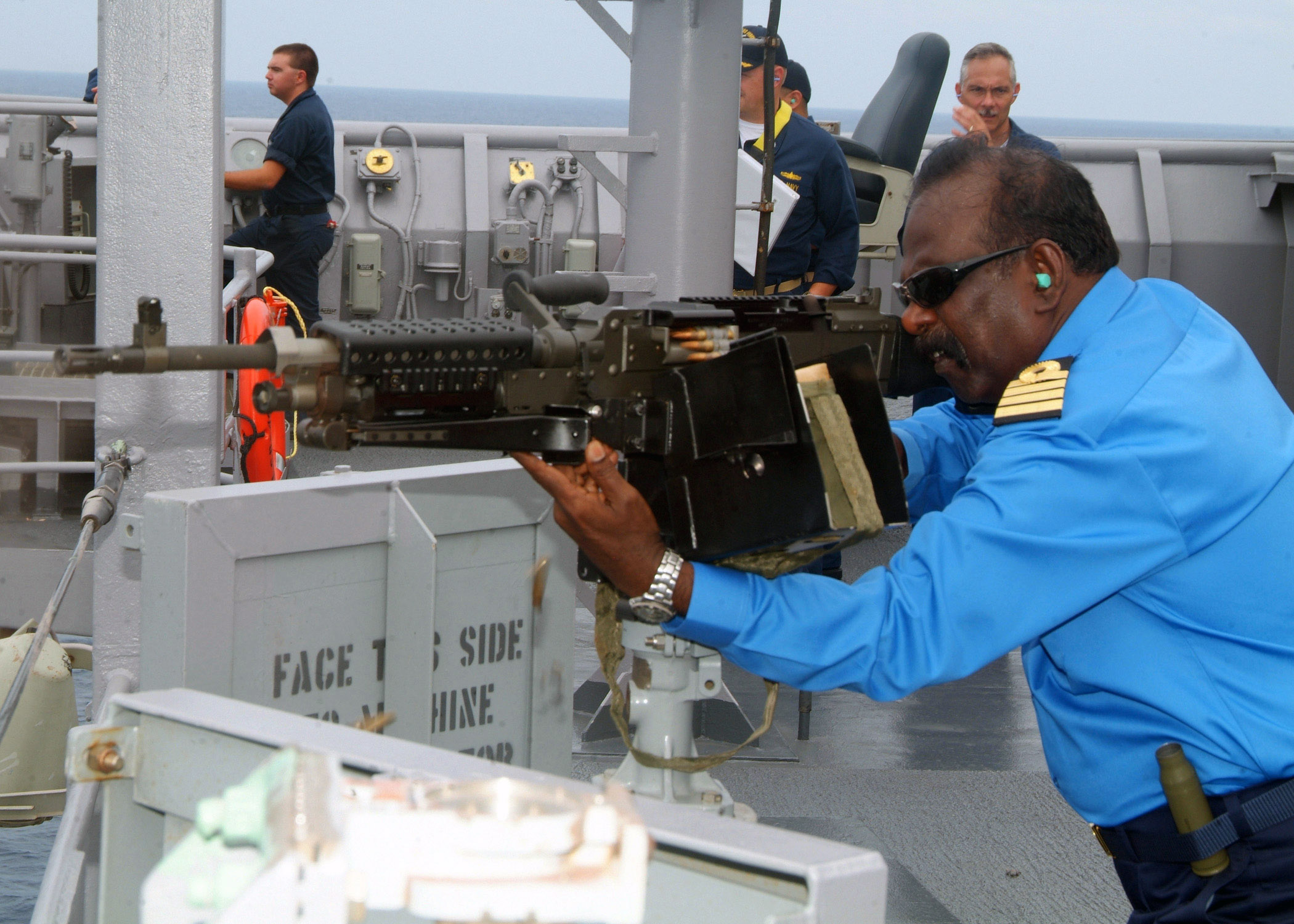 070709-N-0120A-041 SOUTH CHINA SEA (July 9, 2007) - A Royal Malaysian Navy officer mans an M-240B machine gun during a crew served weapons shoot aboard dock landing ship USS Harpers Ferry (LSD 49). Harpers Ferry is participating in Cooperation Afloat Readiness and Training (CARAT) 2007. CARAT is an annual series of bilateral maritime training exercises between the United States and six Southeast Asia nations designed to build relationships and enhance the operational readiness of the participating forces. Harpers Ferry is the flagship for CARAT 2007 with embarked Commander Destroyer Squadron 1. U.S. Navy photo by Mass Communication Specialist 3rd Class Mark R. Alvarez (RELEASED)